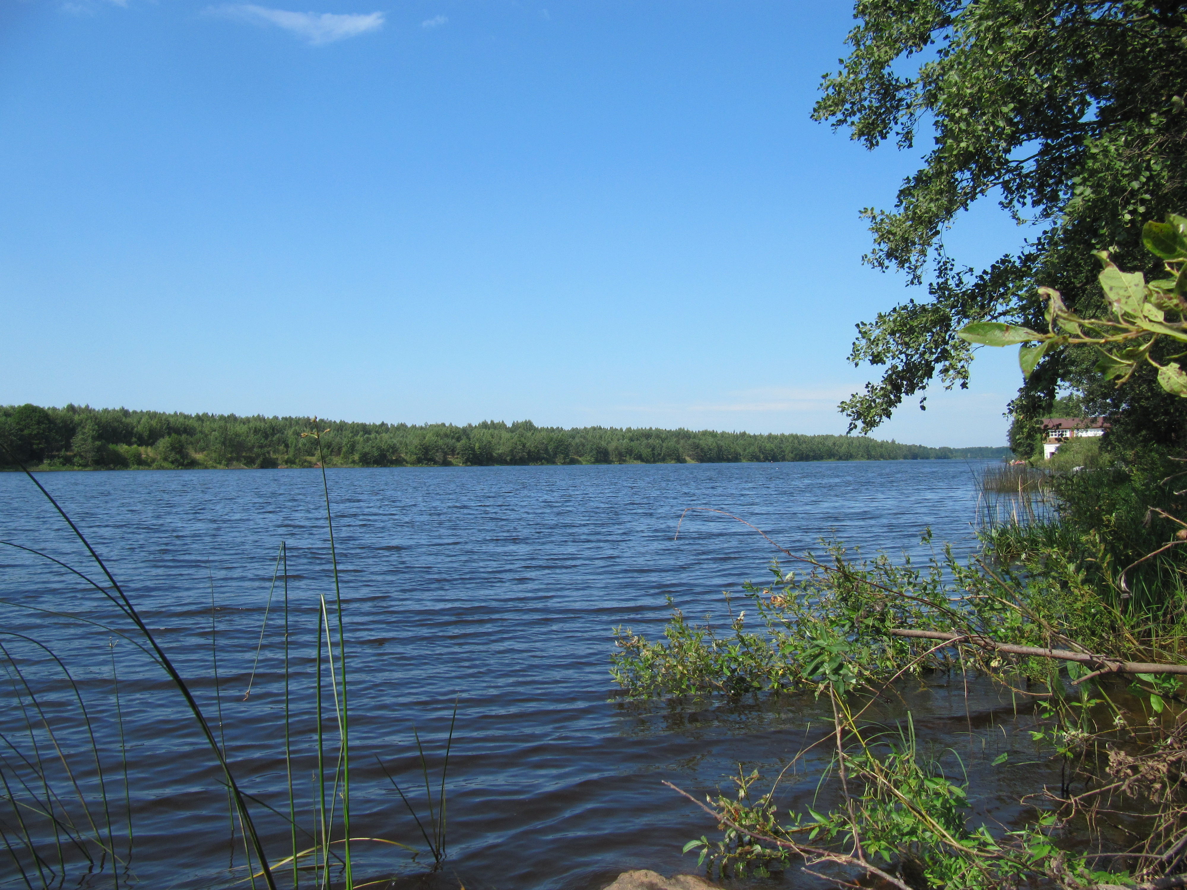 Mologa river, Starorechye village